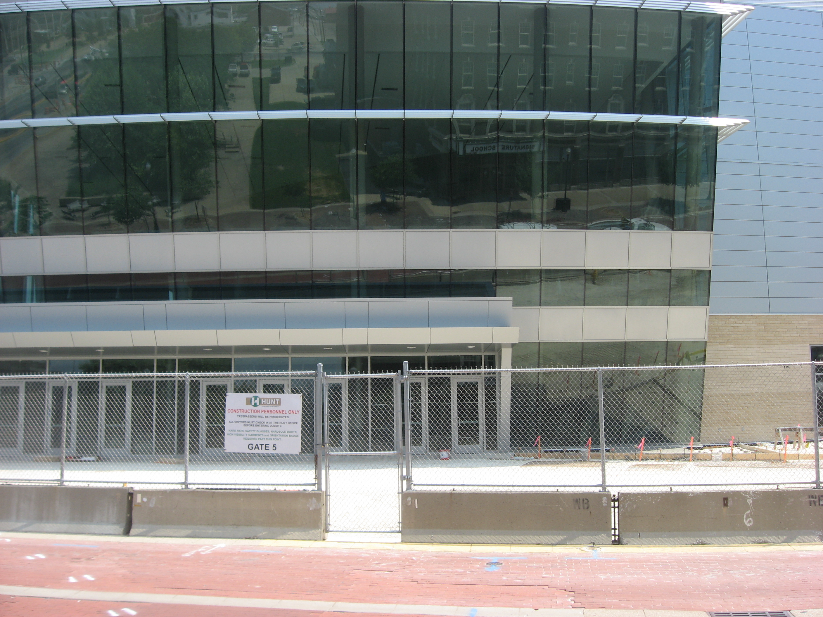 Site of Conner's Bookstore, located at 611-613 Main Street in Evansville, Indiana, United States. Built in 1865, it was listed on the National Register of Historic Places in 1984; although it has been demolished for the construction of the Ford Center, it remains on the Register.